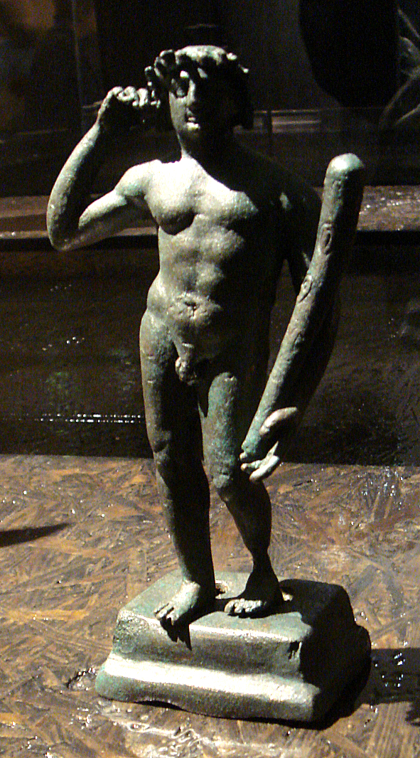 Bronze Heracles statuette. Ai Khanoum. 2nd century BCE. Musée Guimet.